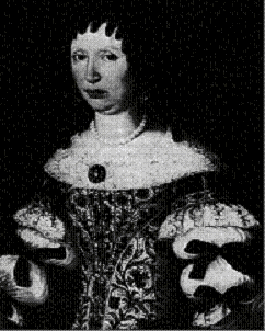 Portrait of Auguste Sophie von Sulzbach (1624-1682)